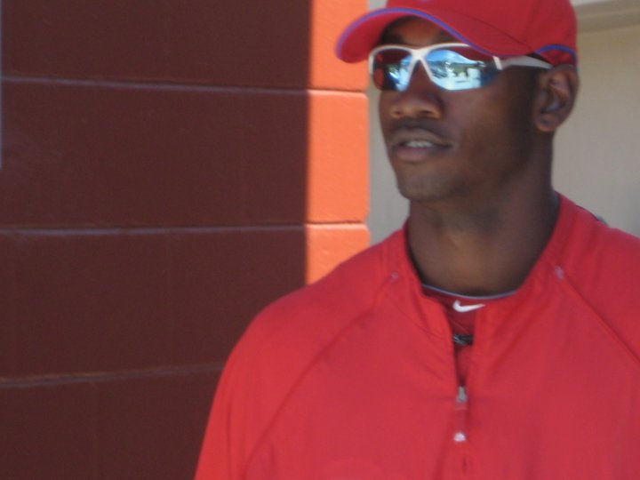 Domonic Brown at Phillies training camp 2010 (Picture by Ian Bussieres, Le Soleil, Quebec City) The copyright holder of this file allows anyone to use it for any purpose, provided that the copyright holder is properly attributed. Redistribution, derivative work, commercial use, and all other use is permitted.